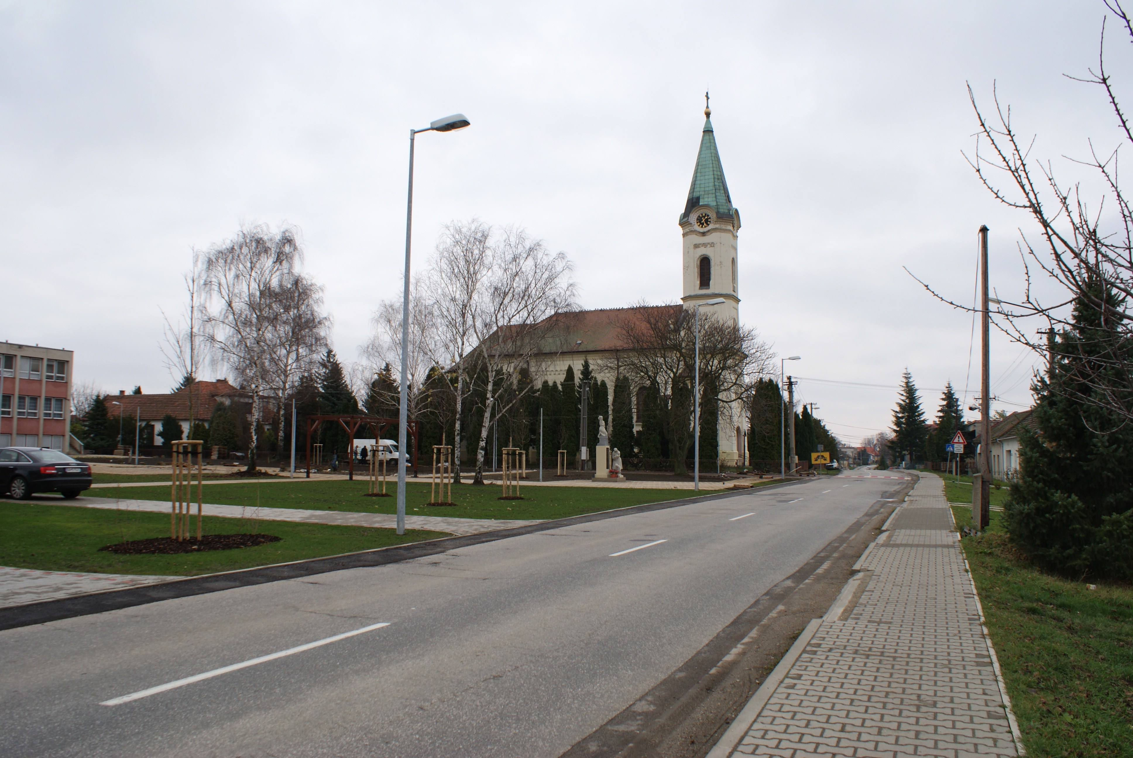 Báhoň, a village in Pezinok District, Slovakia, the church on the village common.